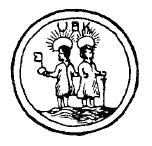 Municipal seal of the municipality Kojetice